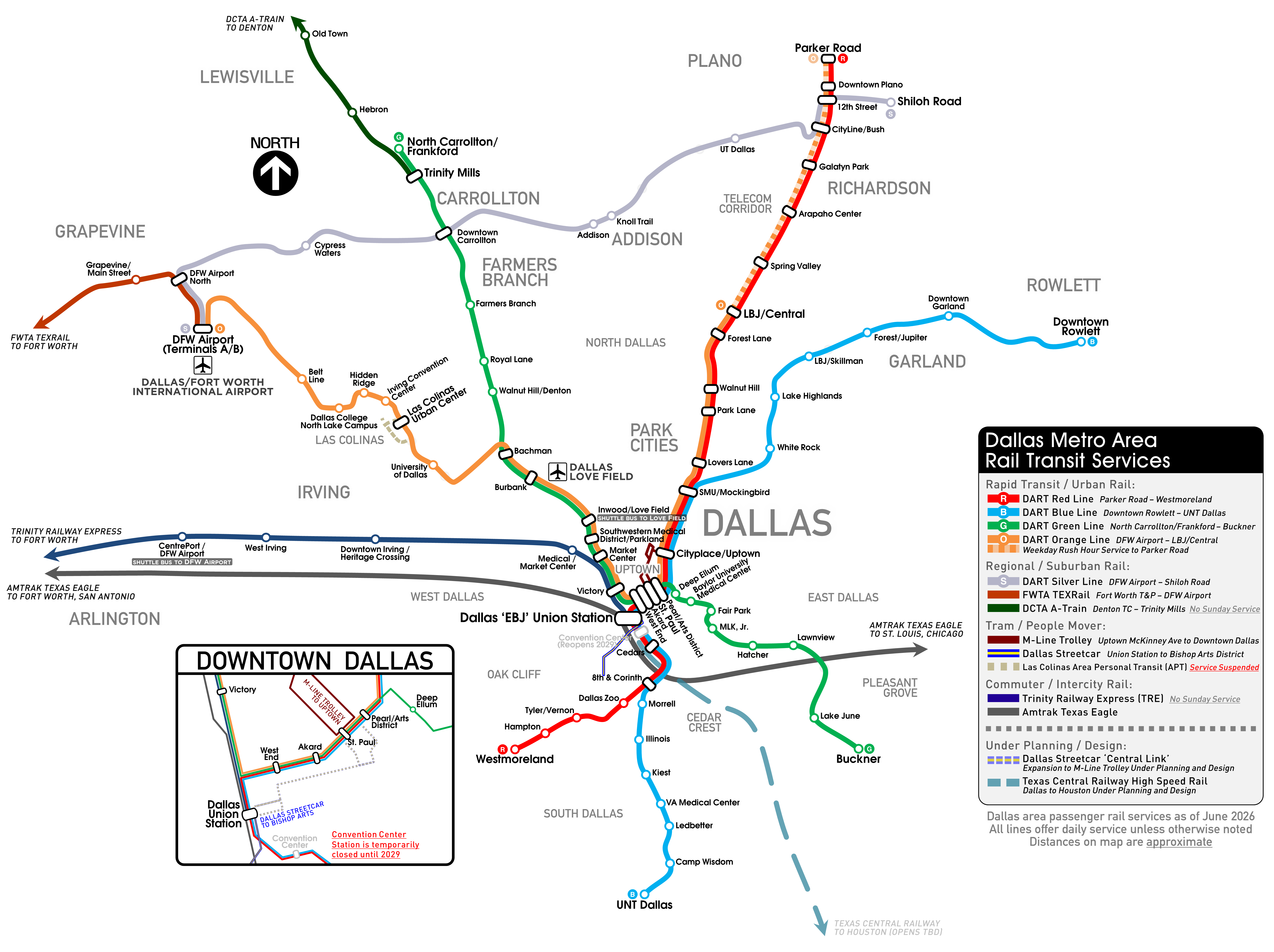 Map of public rail transit serving the Dallas area within Texas, United States. Current as of January 2019.